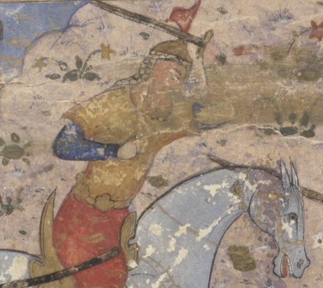 Rostam Farrokhzad in the Shahnameh.